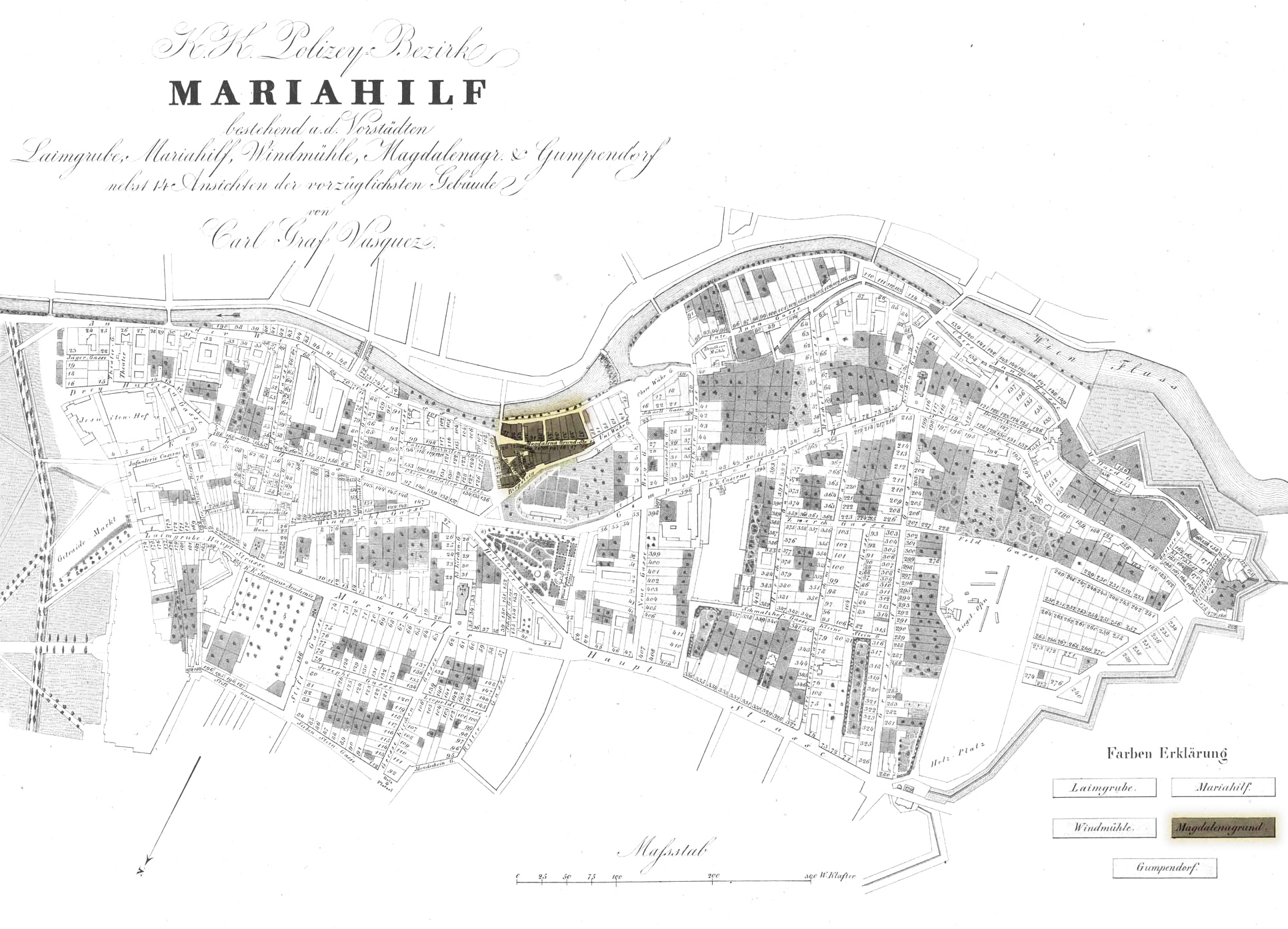 Map of Vienna / Magdalenengrund, approx. 1830